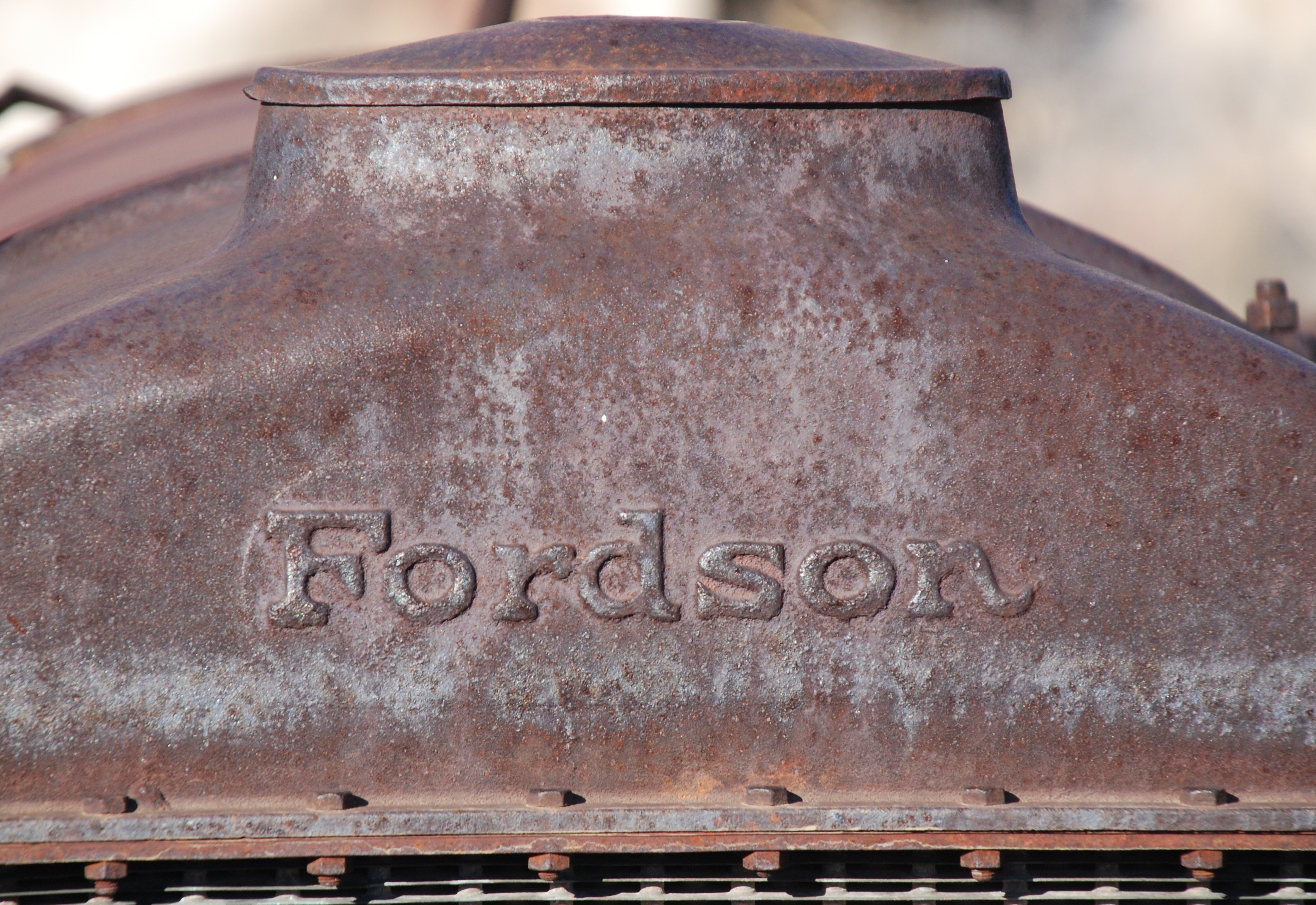 Desert Queen Ranch - Fordson tractor detail